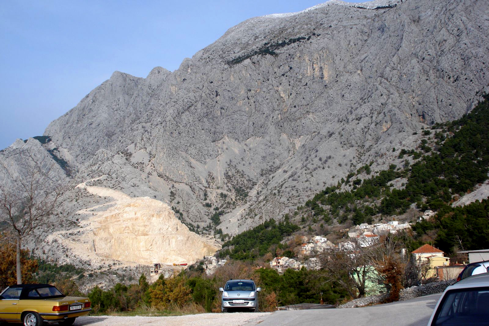 Bast, near Baška Voda, a view towards the quarry.